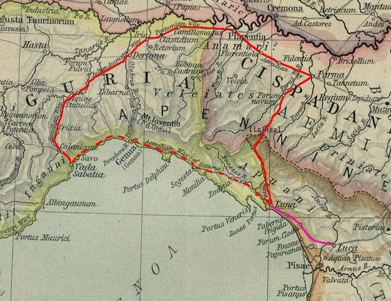 Ancient roman Aemilia Scauri (red color). The dotted line is an alternative conjectural path according some sources. In violet the Luna to Luca extension built under Julius Caesar